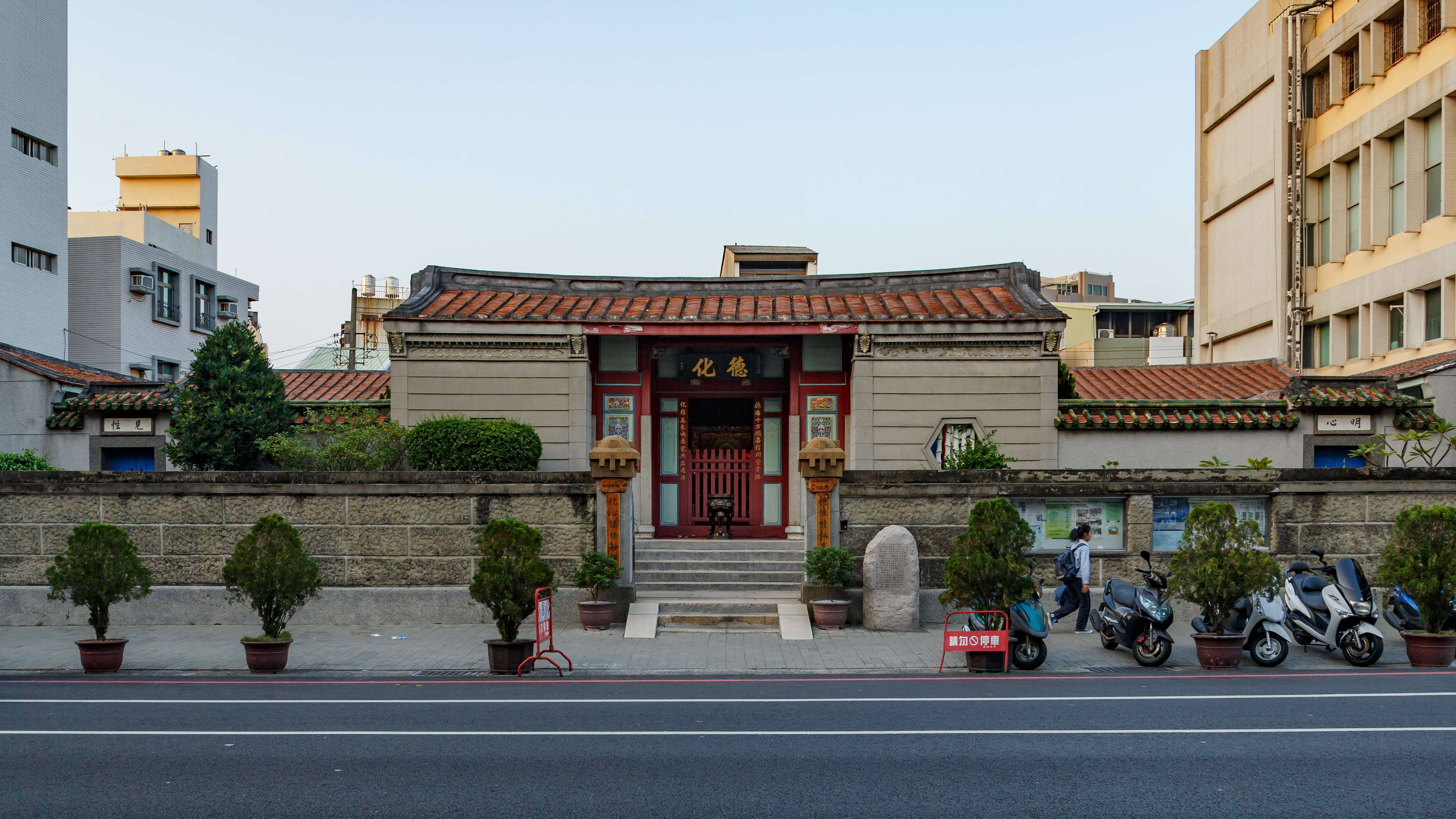 Tainan, Taiwan: Dehua Hall (dé huā táng 德化堂) of the Longhua Buddhist Sect. The temple is one of two remaining in Taiwan that belong to the Longhua Sect of Buddhism. This one is dedicated to worshipping Guan Yin.